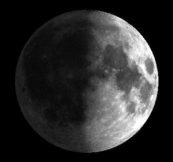 A half waxed moon.